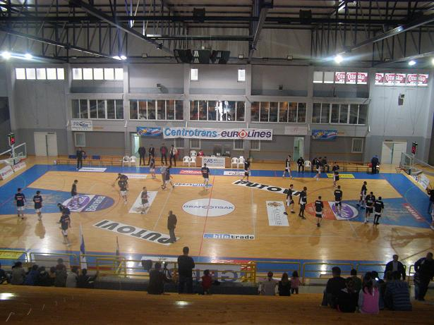 HKK Grude (whites) vs. KK Igokea Partizan (dark blue), playing in Grude